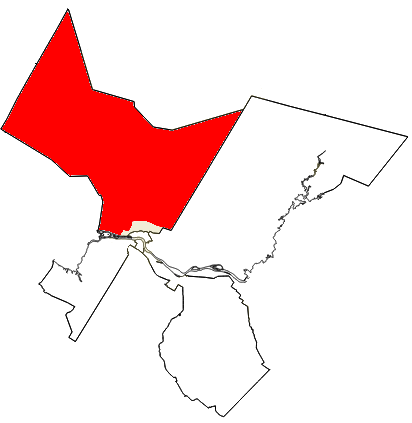 The riding of Fredericton-York in relation to other Fredericton electoral districts. The parts of the riding within Fredericton are gold, the balance of the riding is red.